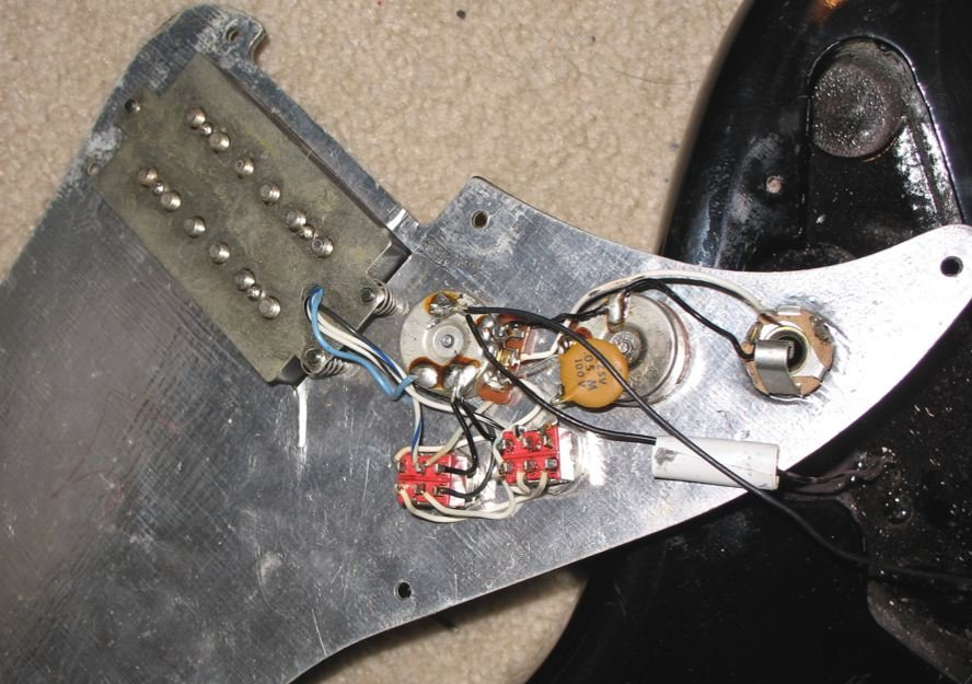 A photograph taken of the back of the shielded pickguard on a 1981 Fender Lead I. This picture shows the pickup, two switches (with the red backs), volume, tone, and output jack. One switch is a 3 way Single/Humbucker/Single pickup switch, and the other changes between a parallel and a series circuit for the humbucker position. There are also two grounding wires shown on the bottom left; one goes to the bridge, and the other appears to go to shielding beneath the routing.